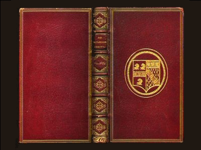 Binding by Charles Capé